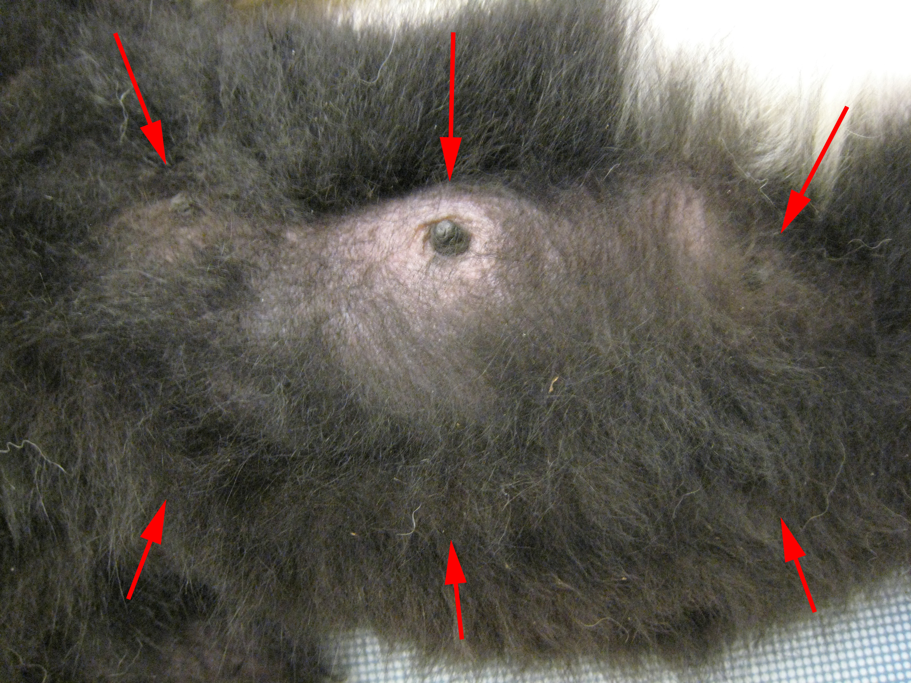 Three pairs of mammary glands on a ruffed lemur (Varecia variegata), left pairs shown while right pairs hidden by fur; taken during a routine phsycial examination